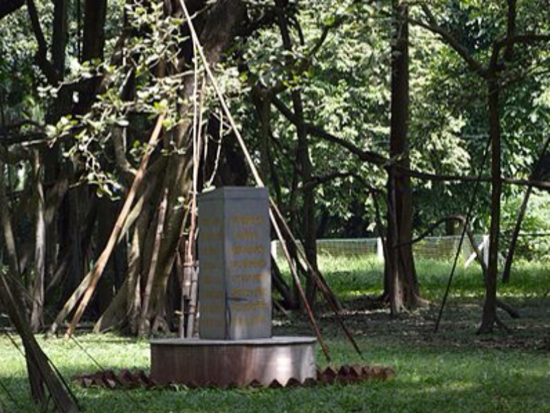 Photographed in Howrah, India.